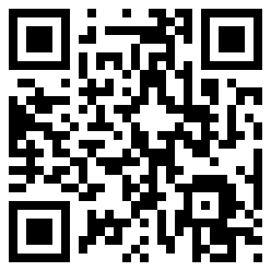 QR Code of malayalam wikipedia